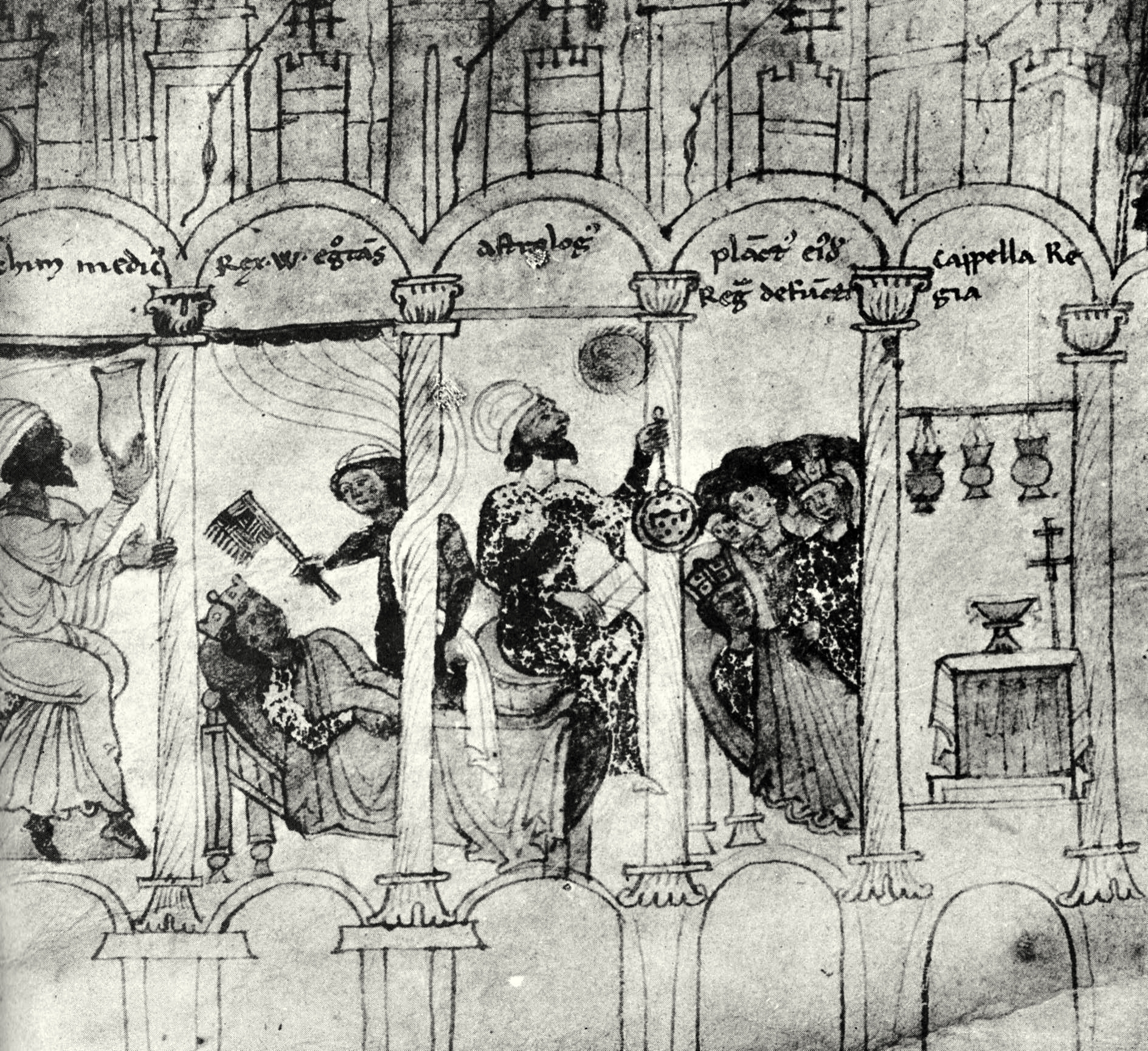 Agony and death of William II of Sicily. Illumination from Liber ad honorem Augusti (Codex 120II, Burgerbibliothek Bern) by Peter of Eboli. It is a stauferian picture-chronicle completed in 1196.